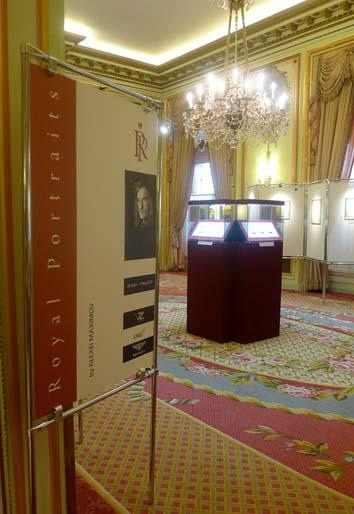 Exhibition “The Royal Portraits” Alexei Maximov. VZ Gallery, London